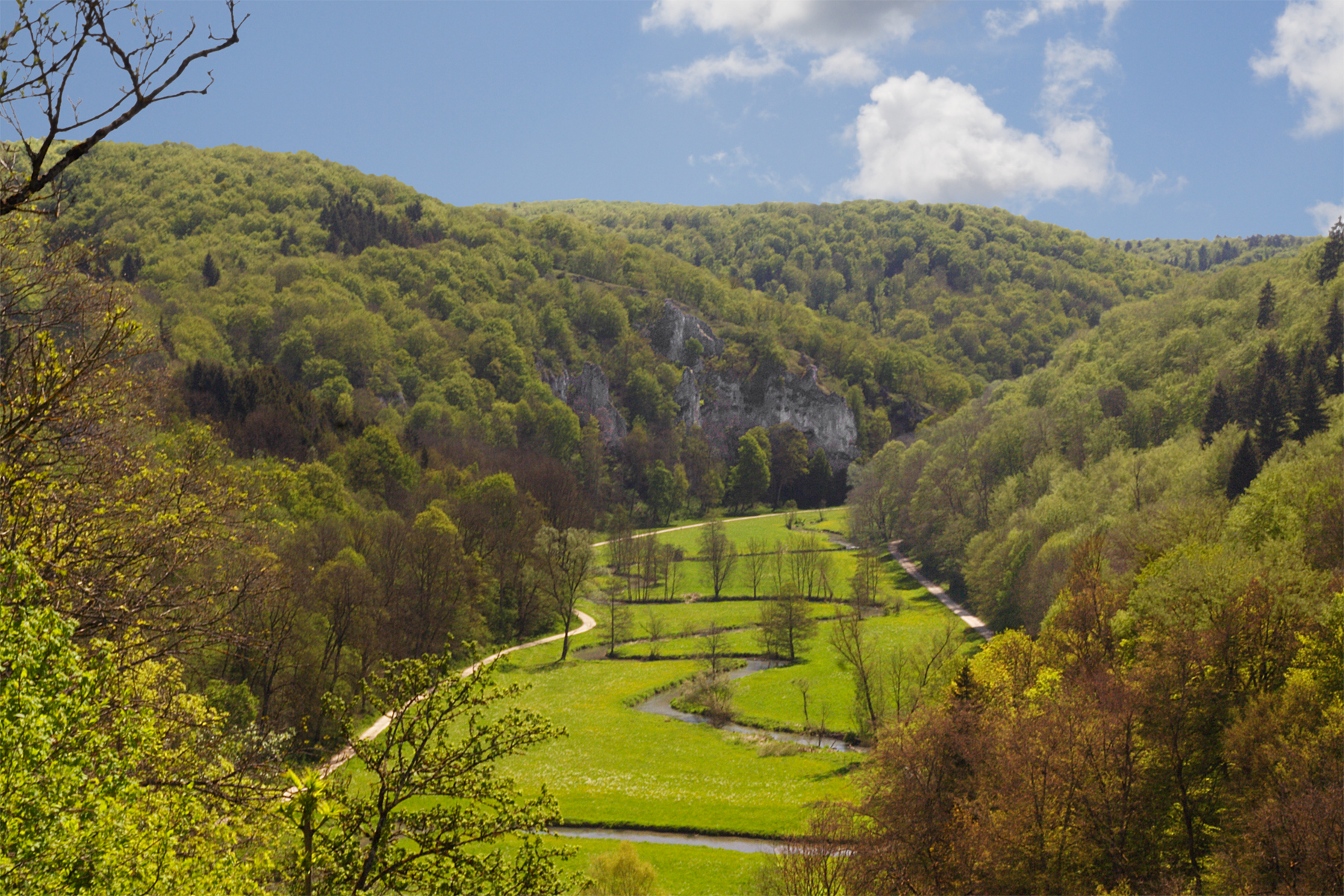 Lower “Große Lauter”, Swabian Alb. 11 km, beginning at the visible range are without a car road within the valley. The river meanders most of its way towards the village Lauterach and its Danube junction thereafter. German law protects the landscape of the river valley and its vicinity as a nature conversation area - from the karst spring to the Danube junction. European legislation “Natura 2000” does the same.